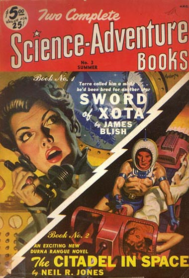 Cover, Two Complete Science Adventure Books, Summer 1951